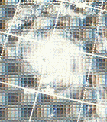 This ITOS 1 weather satellite picture of Typhoon Anita was taken on August 20, 1970 at 0550 UTC